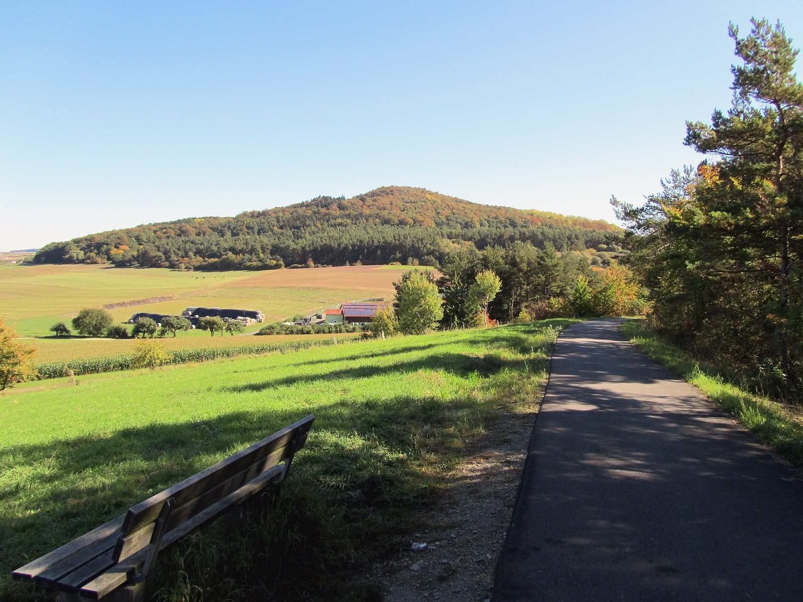 Mountain "Lichtberg" at cycle path hessisches Kegelspiel